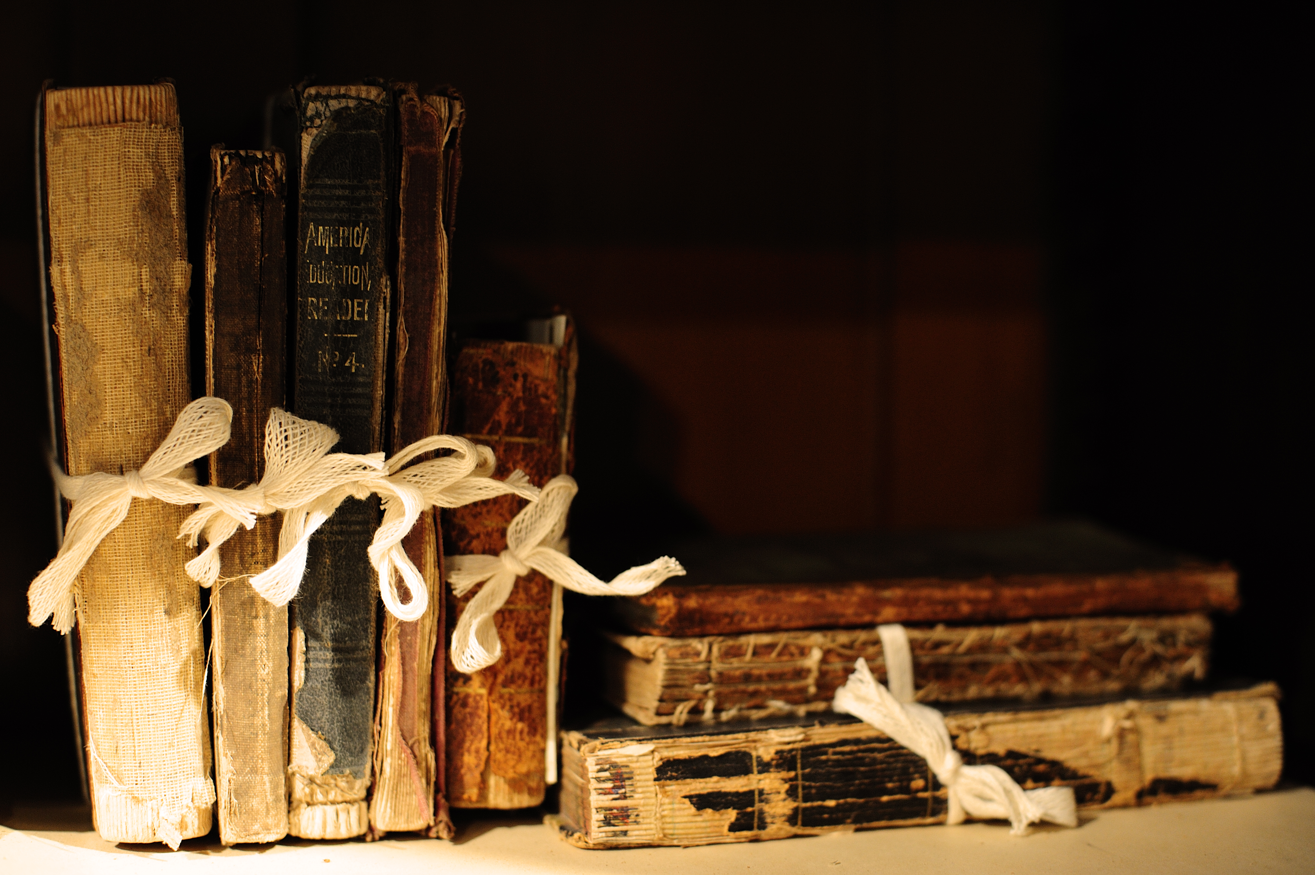 Picture of old books. Basking Ridge Historical Society View Large on Black See where this picture was taken. [?]